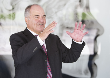 Joachim Treusch at the Laboratory "Behavioral and Social Sciences" at Jacobs University